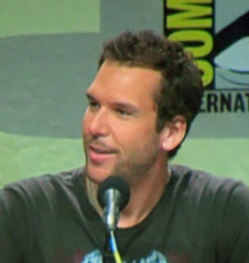 Dane Cook attending Comic Con 2007 promoting Good Luck Chuck.